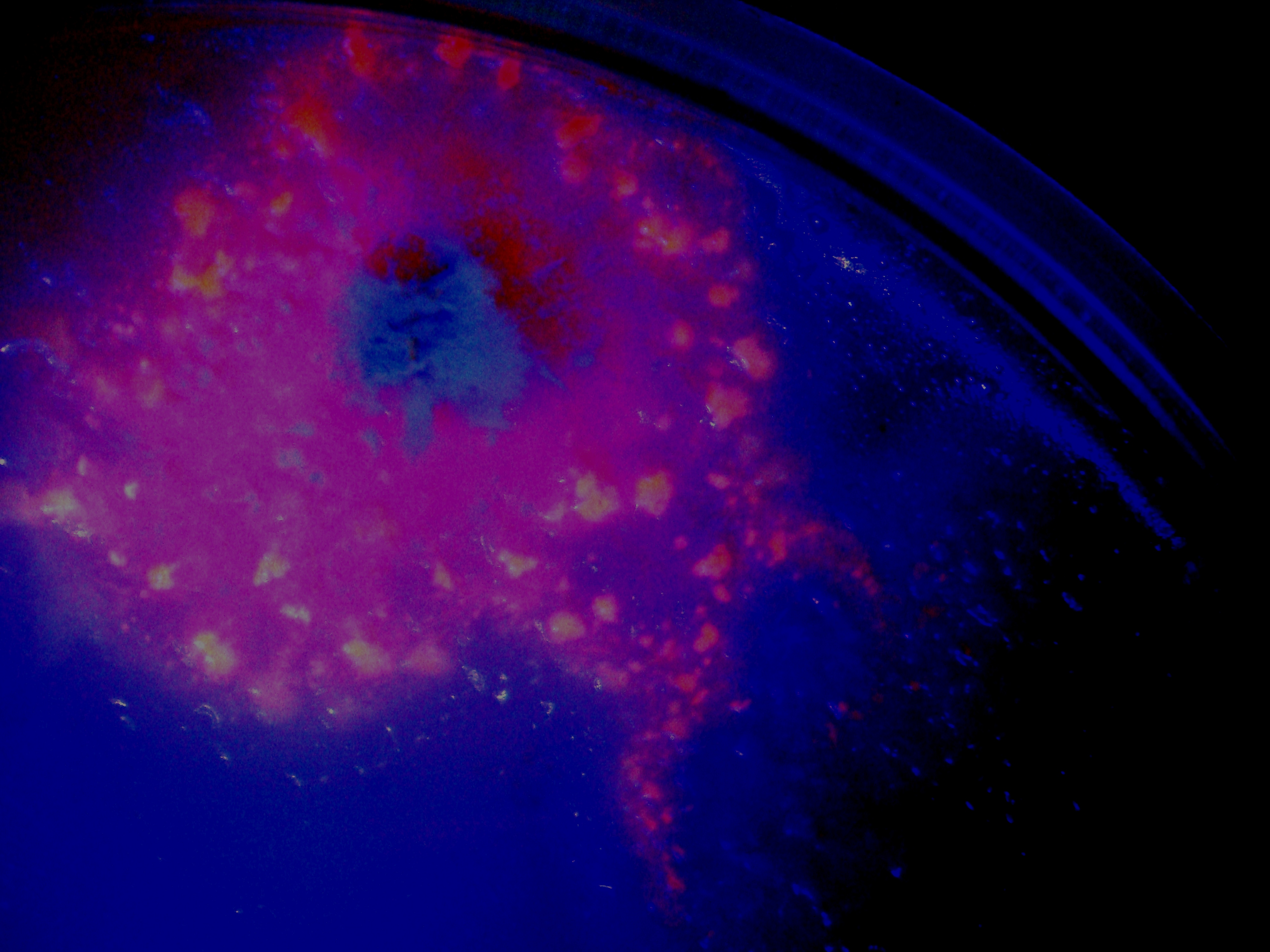 The photos is Pseudogymnoascus destructans on Rhodamine B agar under UV light (365nm wavelength. Florescence indicates lipase activity.